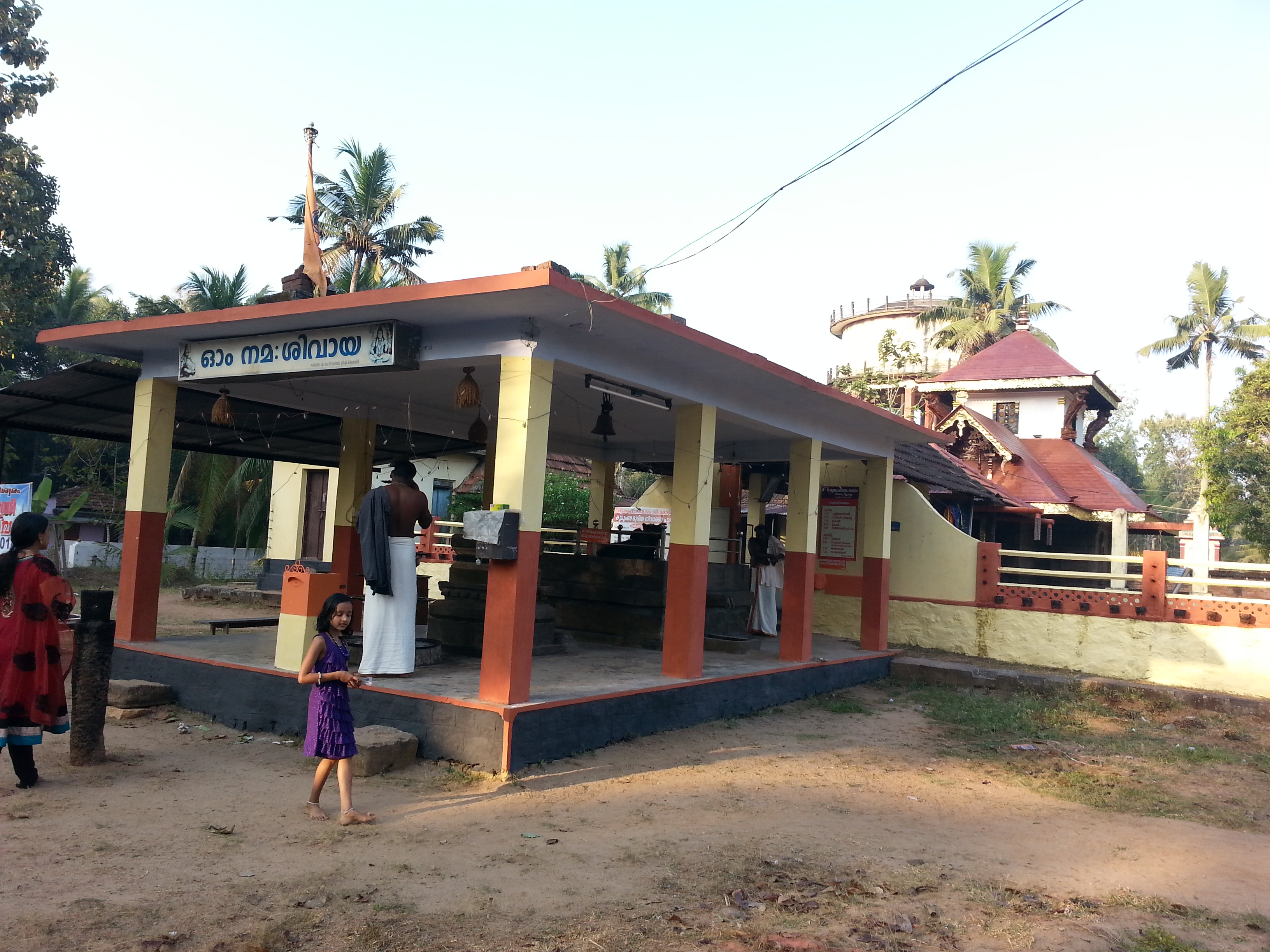 Trikapaleswara Temple Niranam